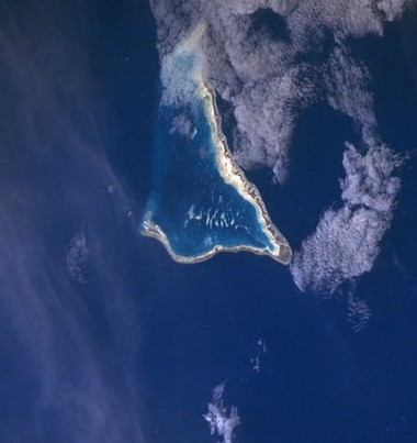 Astronaut photo of Tarawa (upper island) and Maiana, two of the Gilbert Islands, Republic of Kiribati.